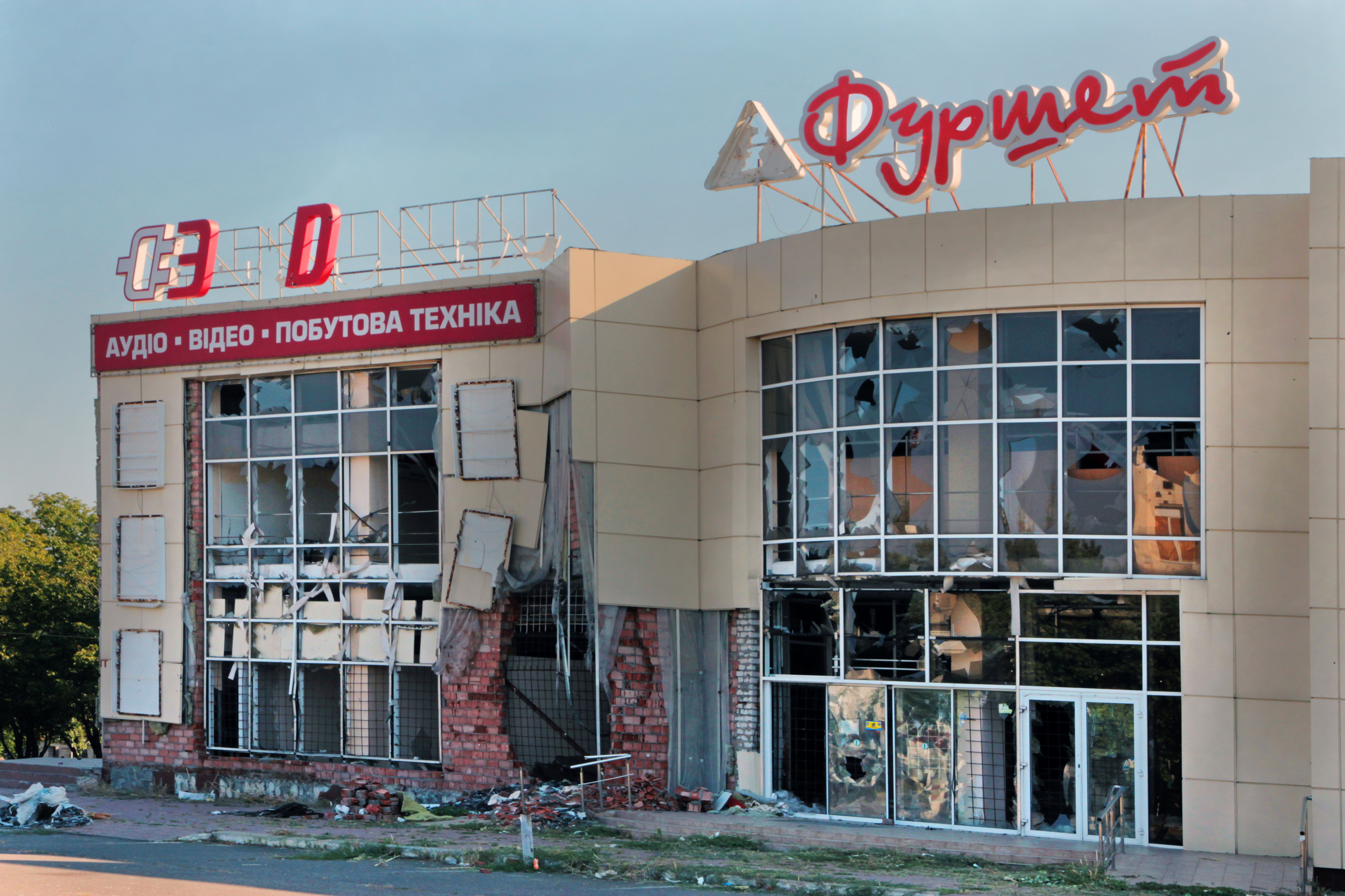 Ruined supermarket in Lugansk. August 2015